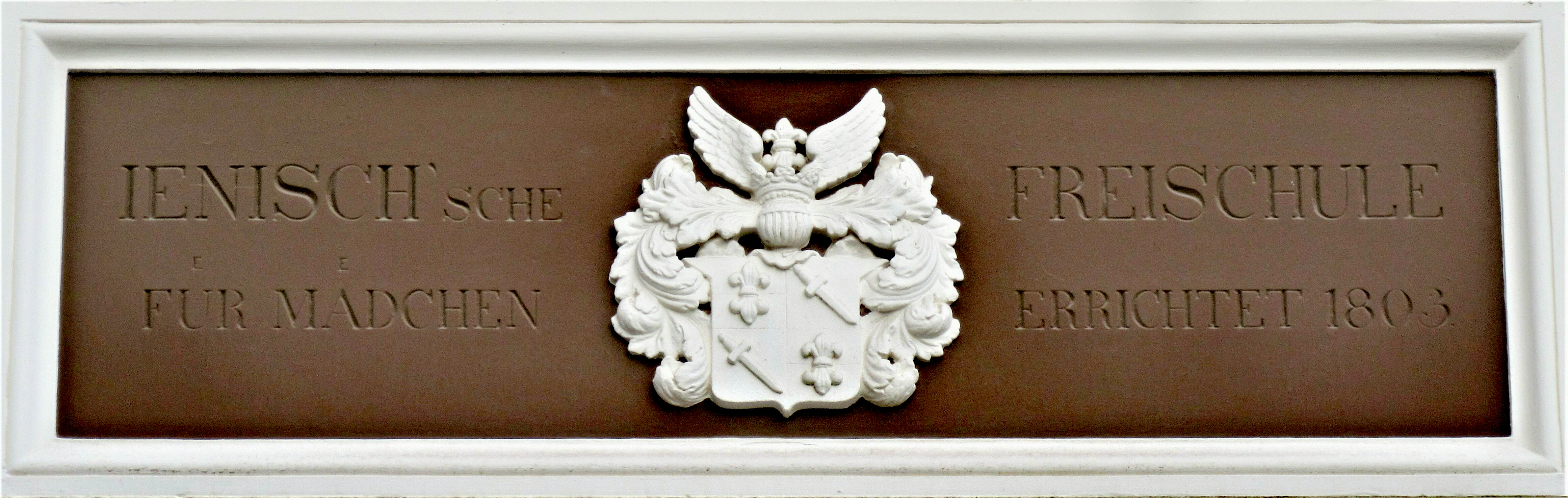 St.-Annen-Strasse 4